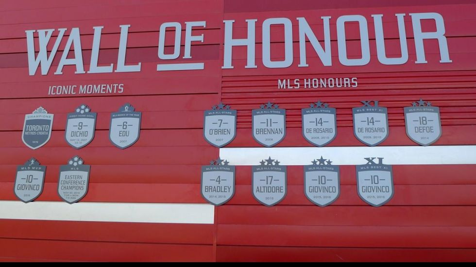 TFC "wall of honour" outside BMO Field